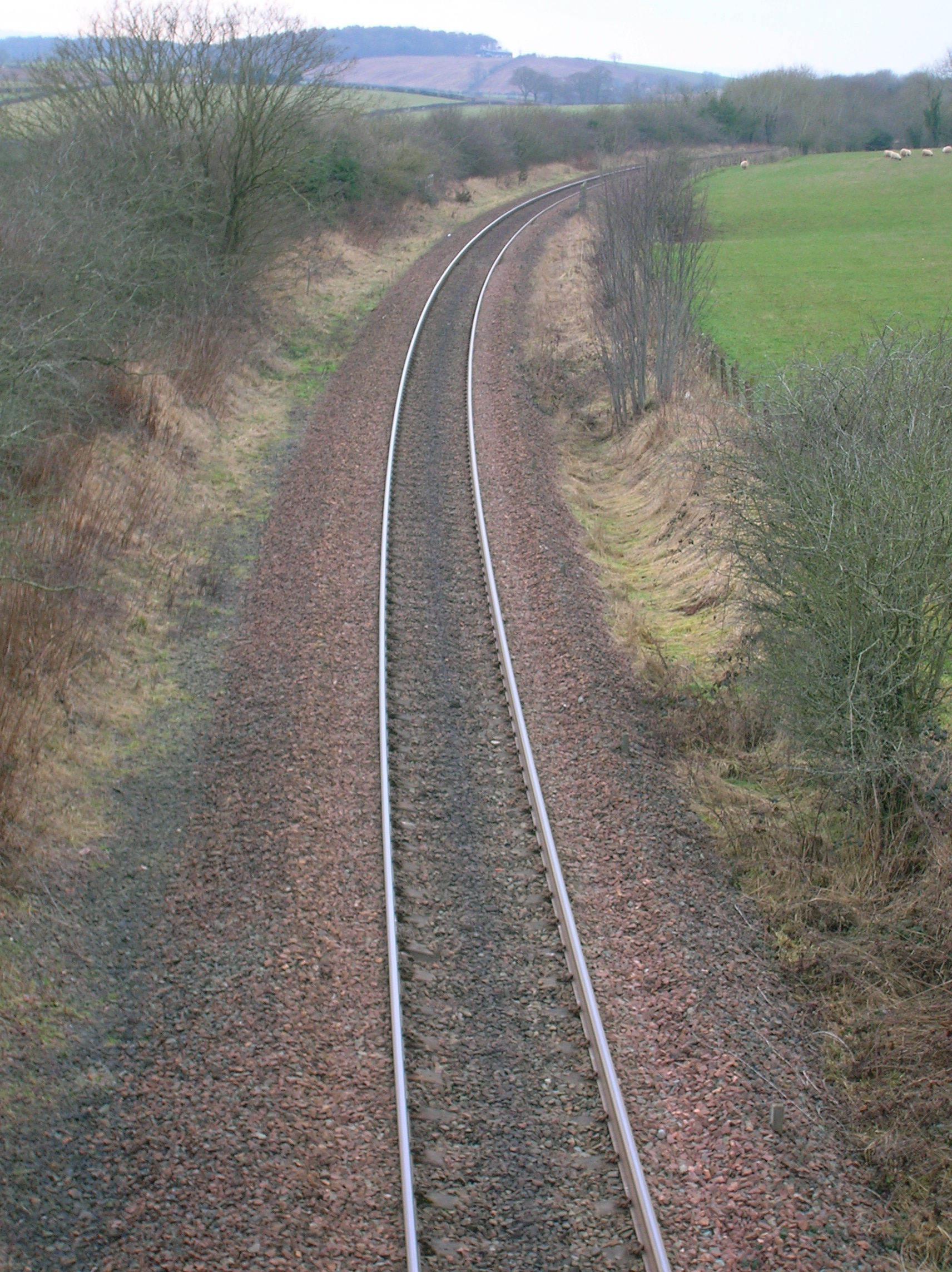 The line running towards Ayr from the Tarbolton station overbridge. Ayrshire, Scotland.